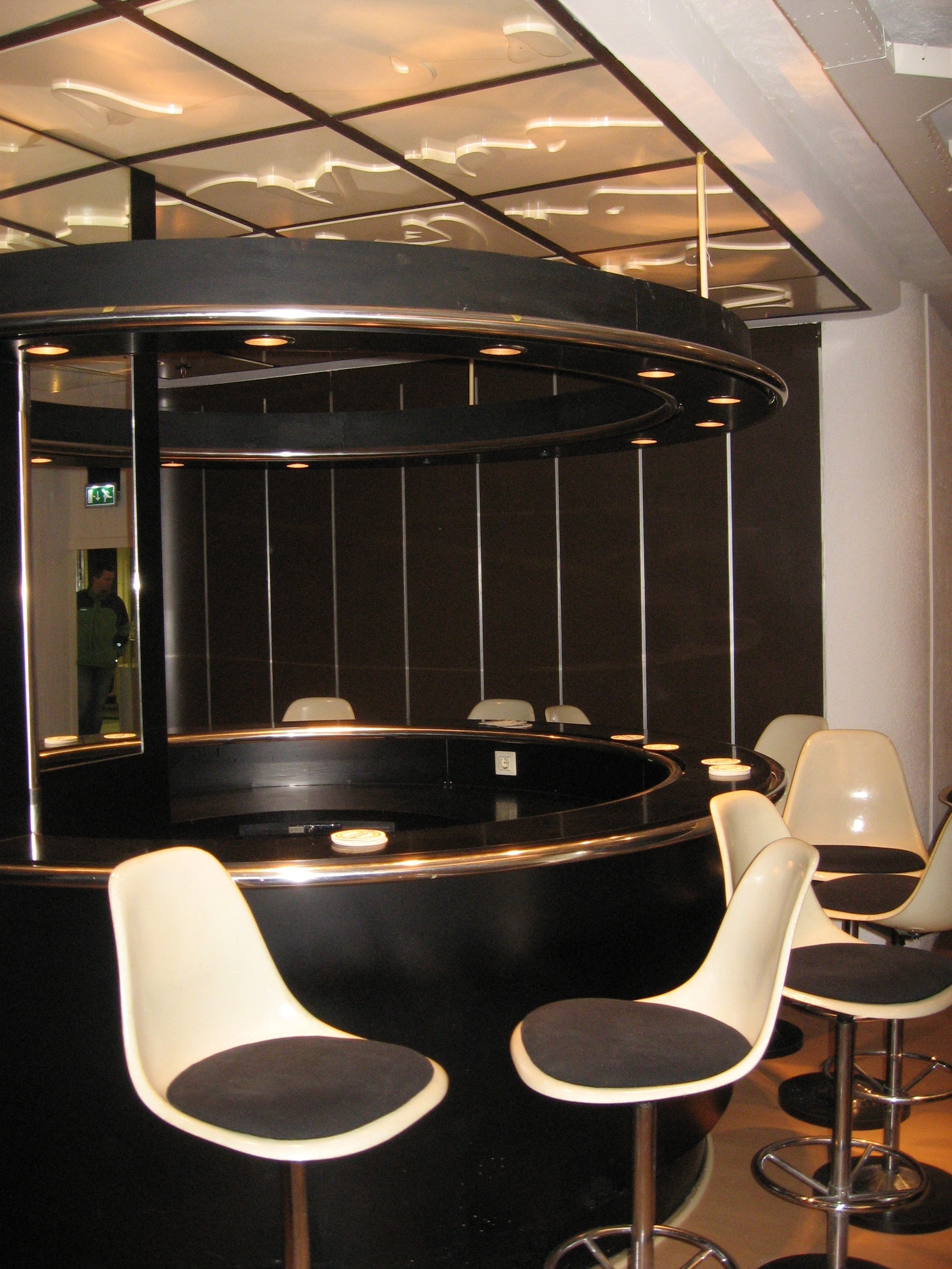 Bar of the closed night club 'Mirliton' in a section of shopping mall Hoog Catharijne, not accessible to the normal public.